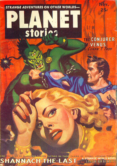 Cover of Planet Stories, November 1952